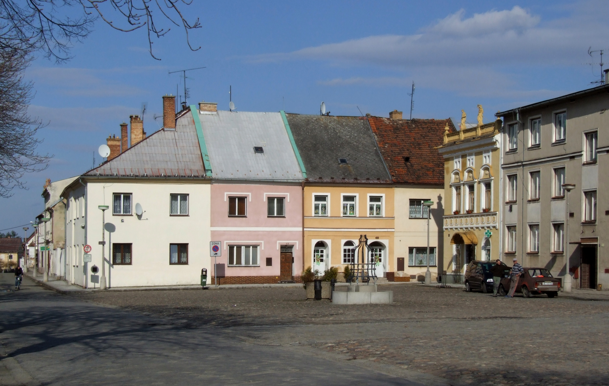 Vidnava (Weidenau) - market square